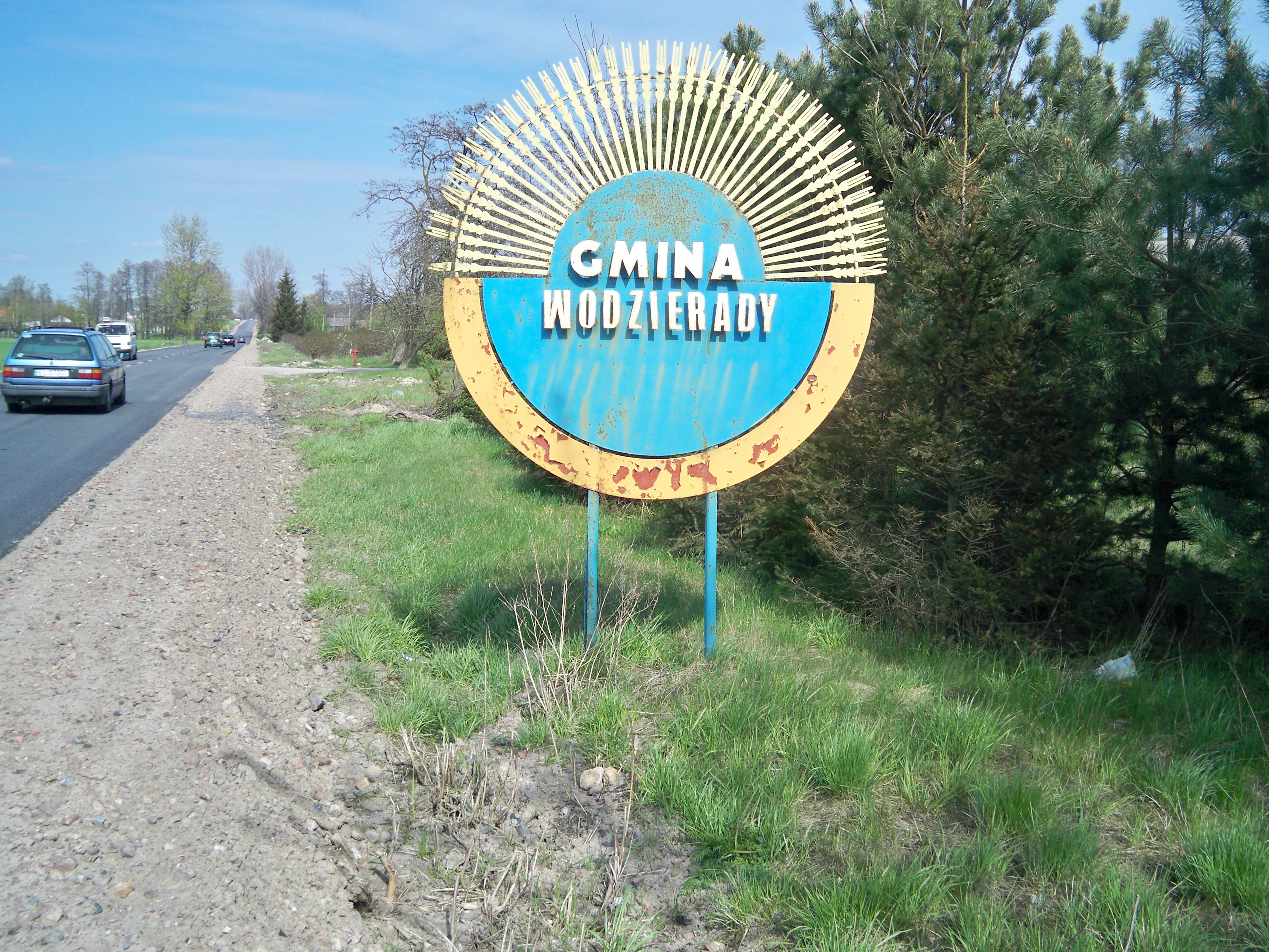 My photo